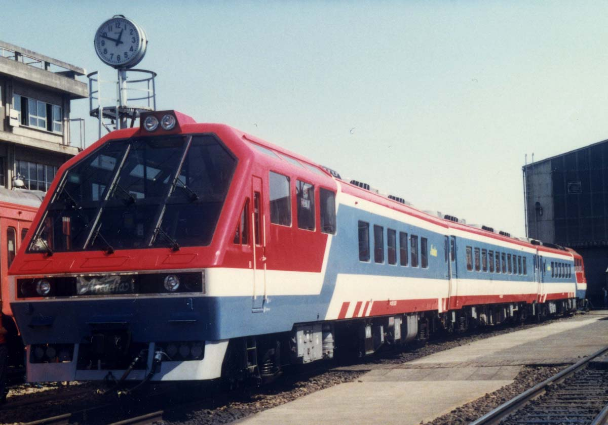 Salon Express Arcadia of Japanese National Railways (in old colours)